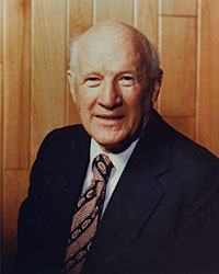 A picture of Donald McKenna, from an unknown date.